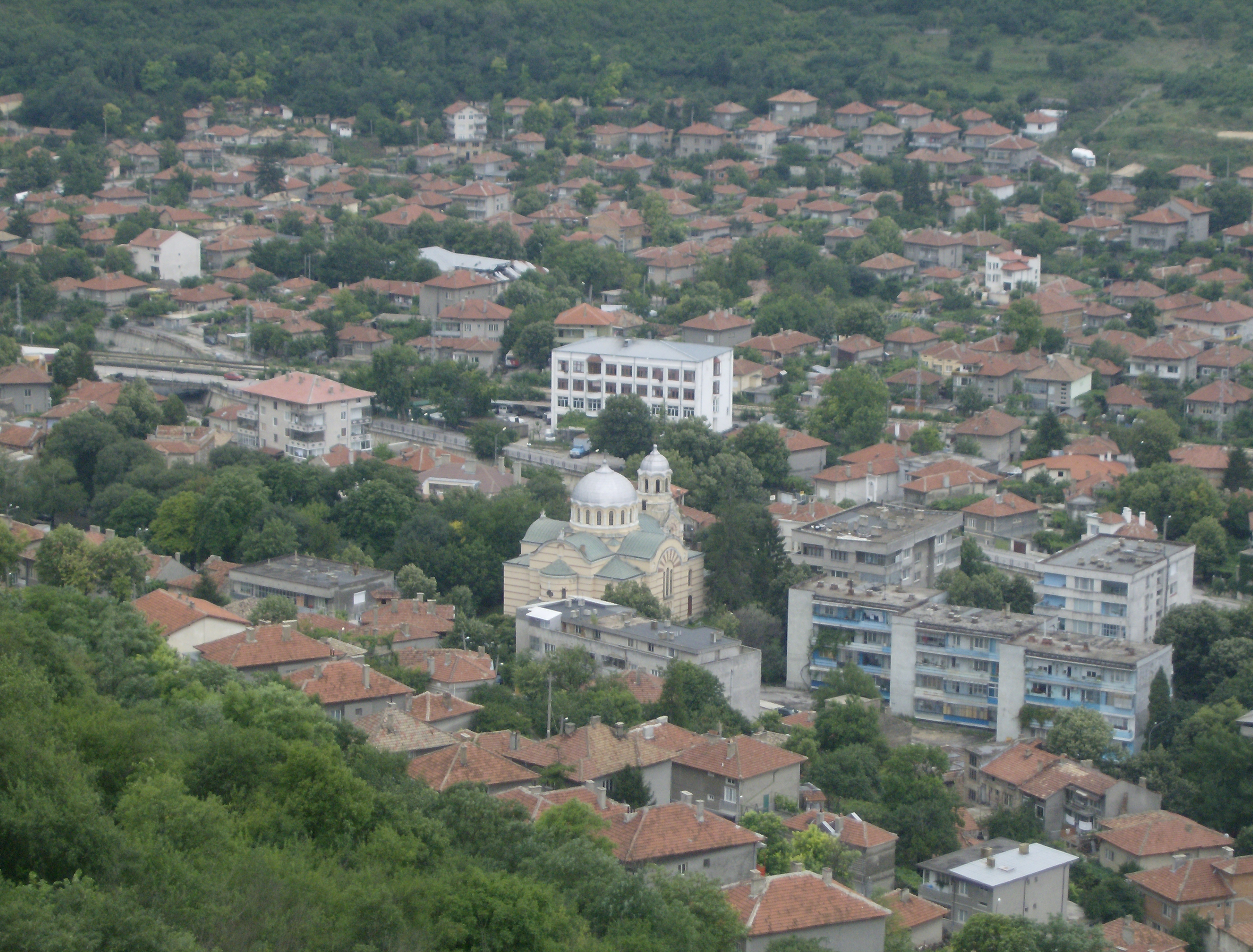 Provadia